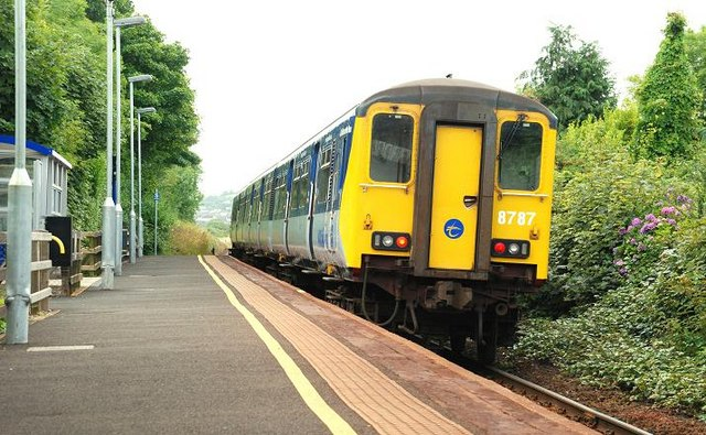 Ballycarry station, 2009 (5)